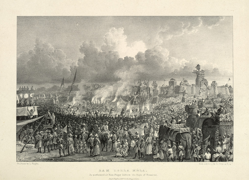 "Ram Leela Mela, As Performed before at Ram Nugur before the Raja of Benares," lithograph, by the Anglo-Indian scholar and mint assay master James Prinsep. Dated 1834. Courtesy of the British Library, London.